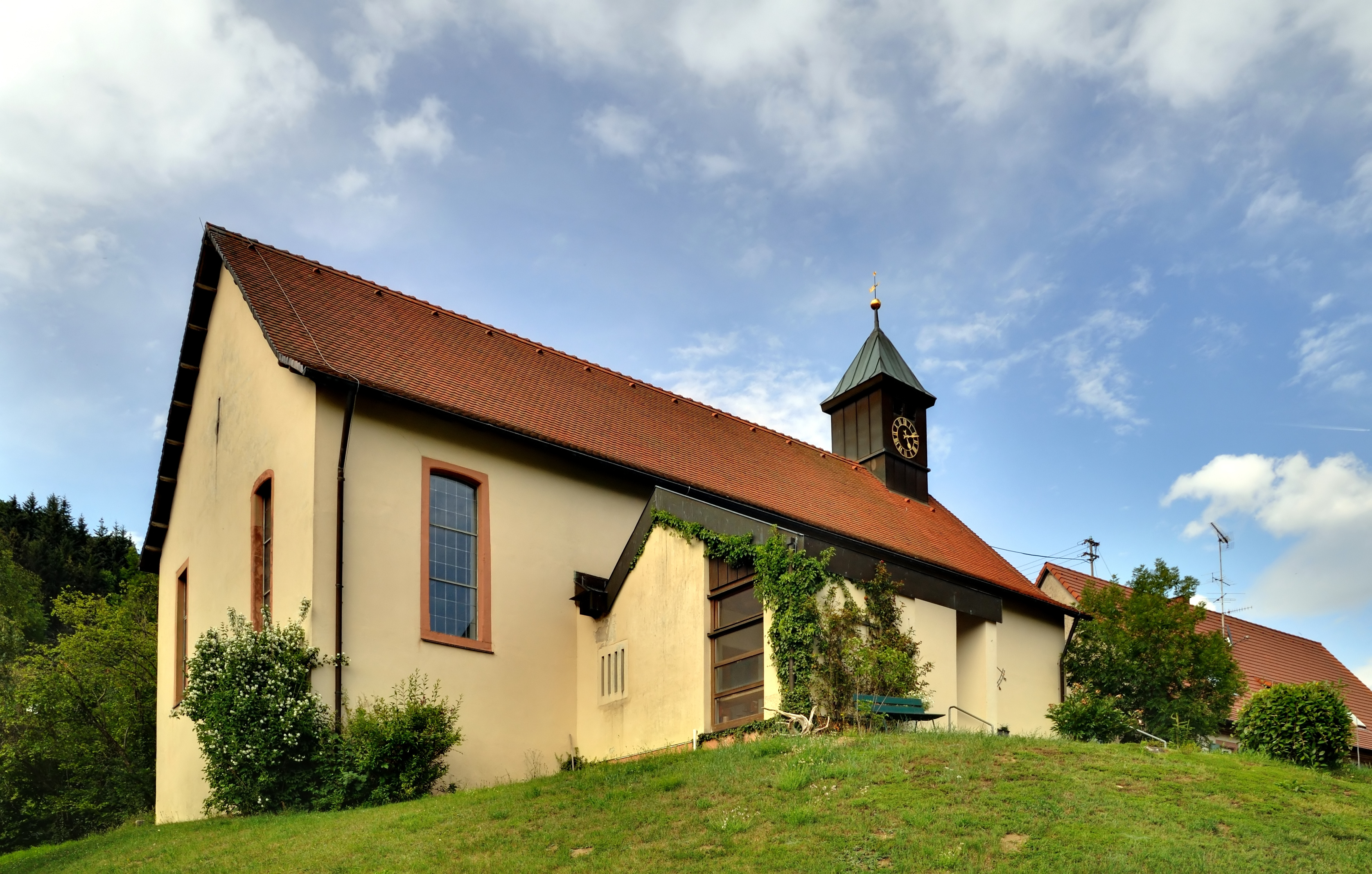 Vogelbach: Protestant Church